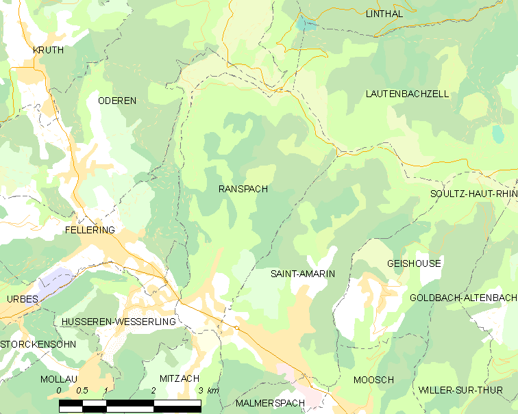 Map of French municipality